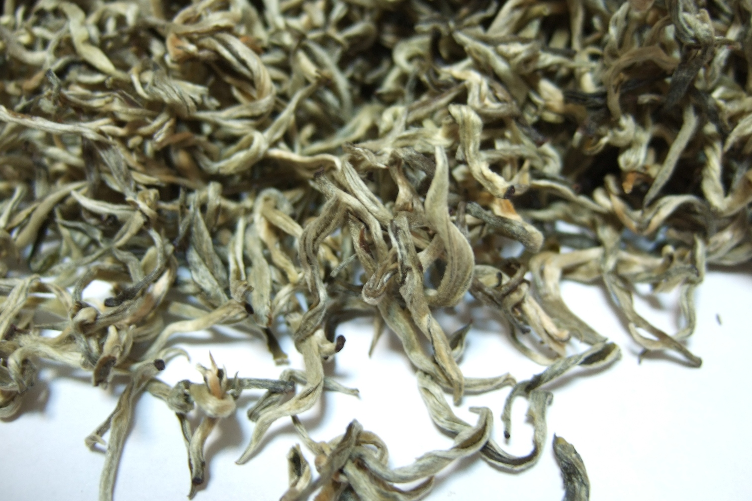 A rare variety of yellow tea from Hunan Province, China.